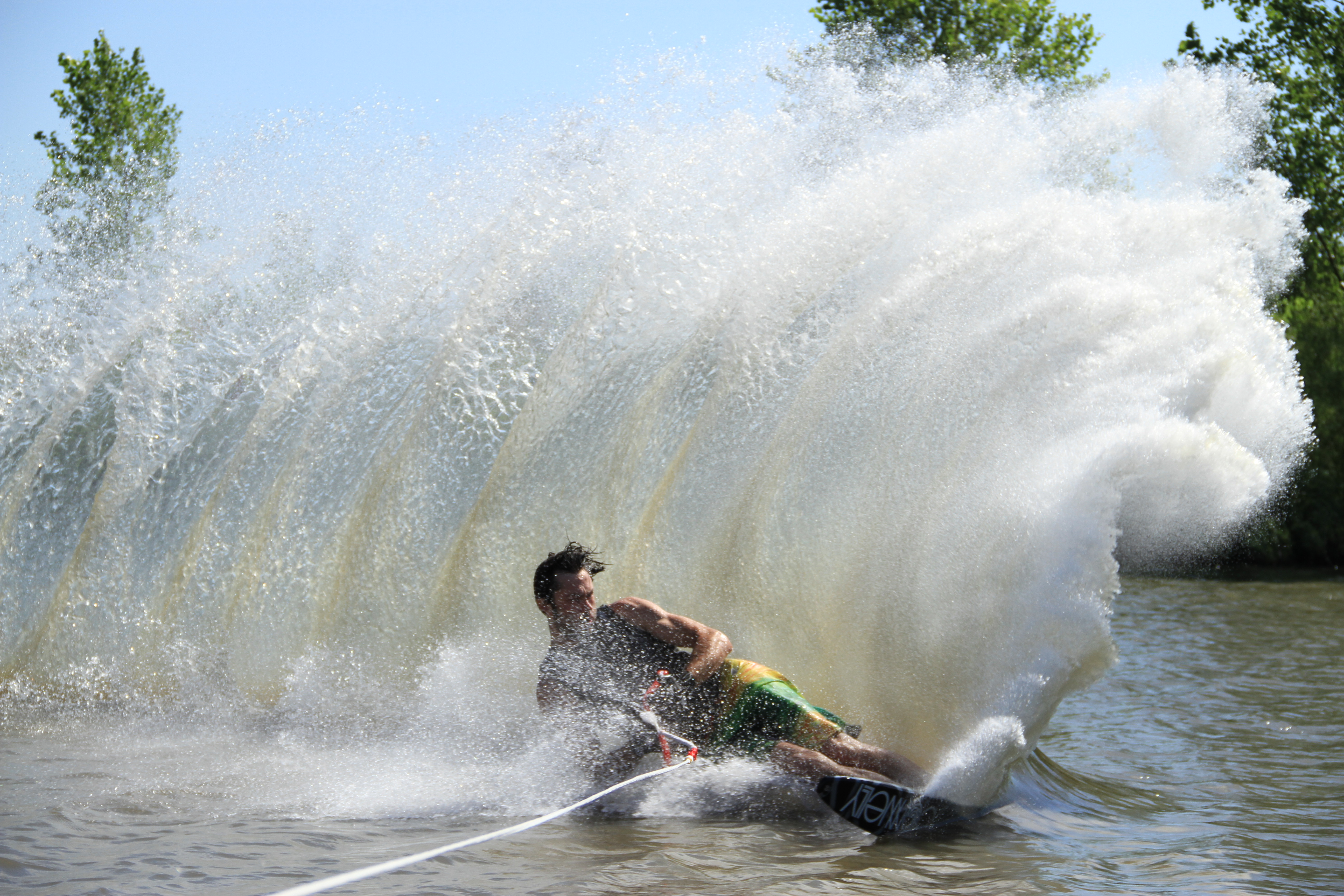 Slalom Water Skiing